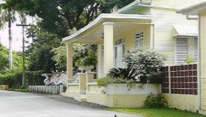 The old house of the Mirabal family and current residence of Dede Mirabal.